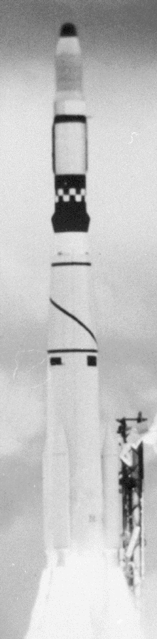 Launch o Thor SLV-2A Agena D rocket with satellite Corona 76, February 15 1964